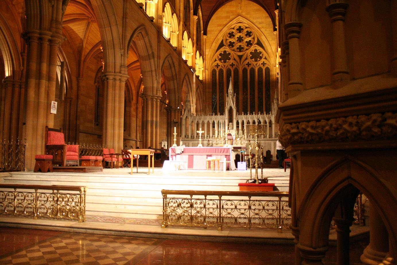 The Sanctuary of St Mary's Cathedral. Taken on the 16 December 2005 at 8.59pm (Local Time) Uploaded by KaiAdin 12:42, 18 December 2005 (UTC)